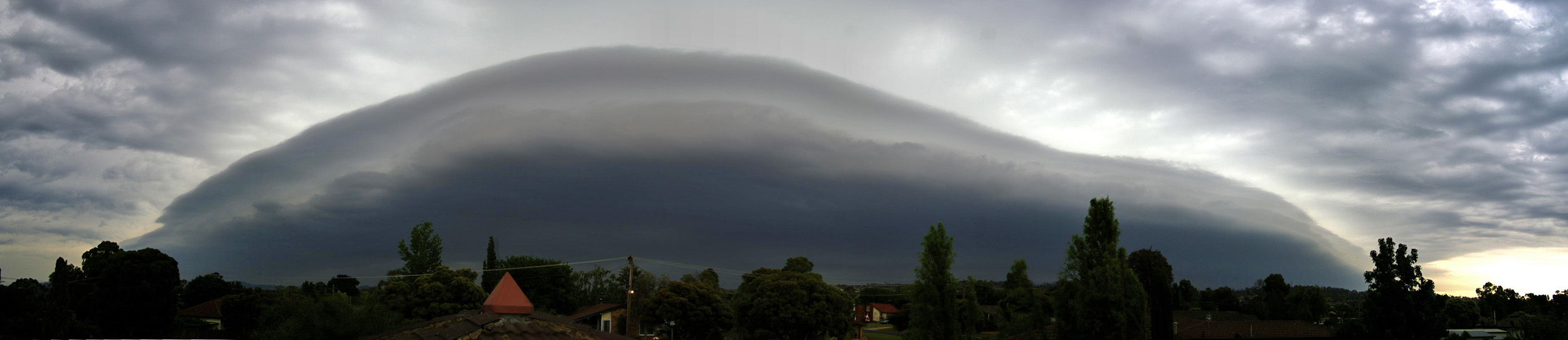 A panorama of a shelf cloud over the City of Wagga Wagga Because this photograph concerns privacy since this was taken on a private property, only an approximate location is provided: Wagga Wagga, New South Wales, Australia